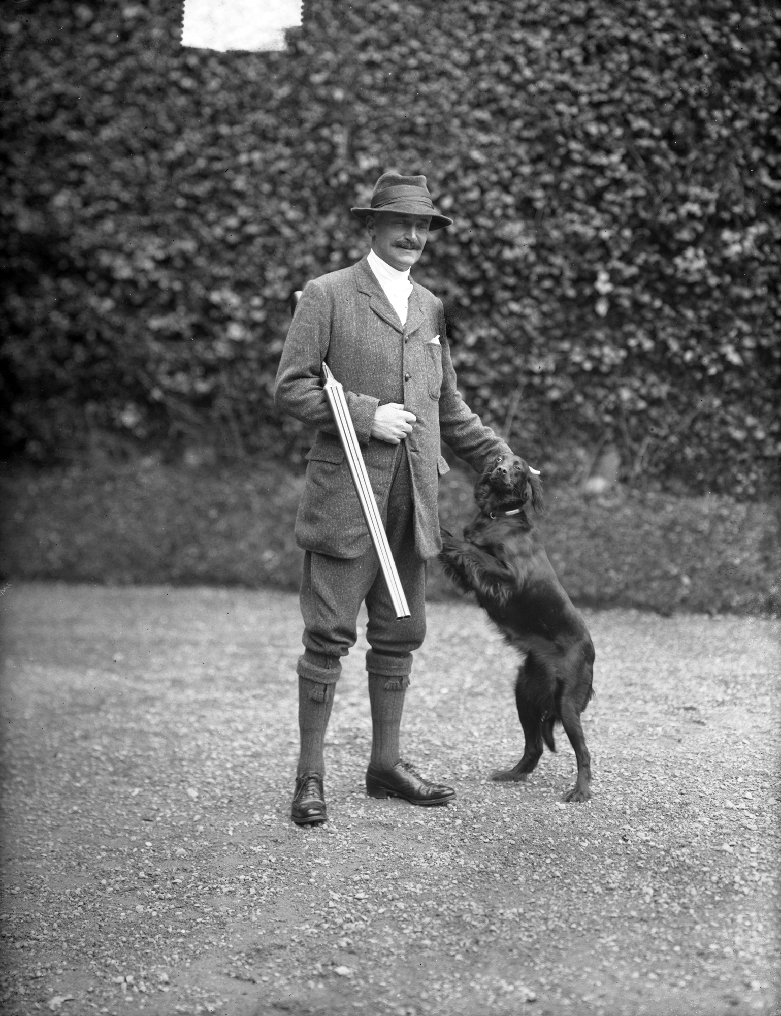 Sir Hercules Robert Langrishe, 5th Baronet Langrishe (1859-1943) and his dog. The Langrishe's seat for nearly 300 years (until 1981) was Knocktopher Abbey, Co. Kilkenny. Date: Tuesday, 25 March 1913 NLI Ref.: P_WP_2441